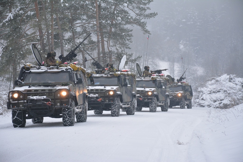 Italy's Brigata Bersaglieri Garibaldi maneuvers through Hohenfels Training Area during Exercise Allied Spirit at 7th Army Joint Multinational Training Command, Germany, Jan. 23, 2016. Exercise Allied Spirit includes more than 2,400 participants from seven NATO nations, and exercises tactical interoperability and tests secure communications within Alliance members and partner nations. (Photos Courtesy of Garibaldi Brigade)